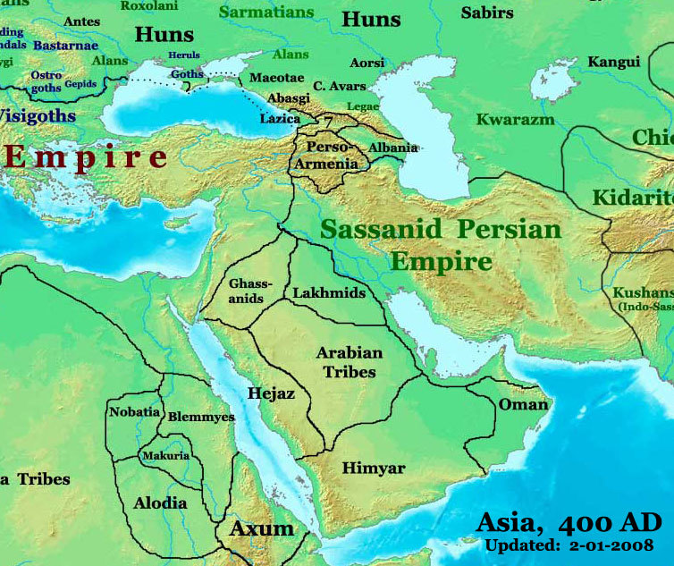 Asia in 400 AD